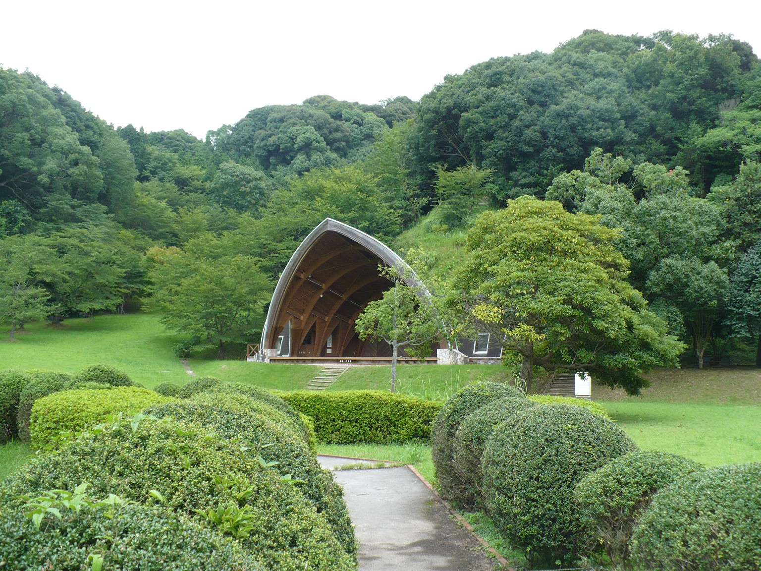 The central plaza and the outdoor music stage of Kagoshima prefectural forest, Aira, Kagoshima, Japan.